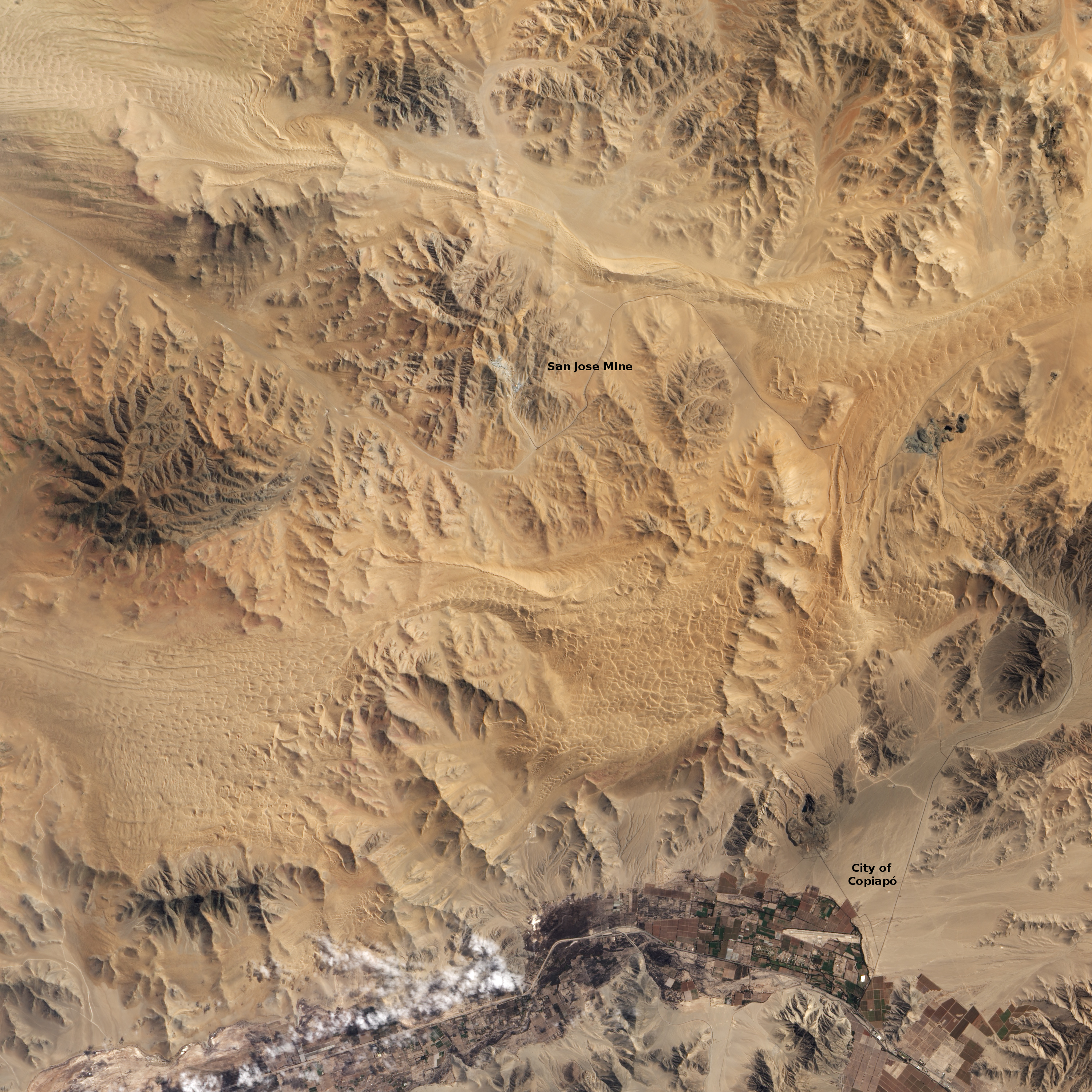 Annotated satellite image of San Jose Mine, Chile